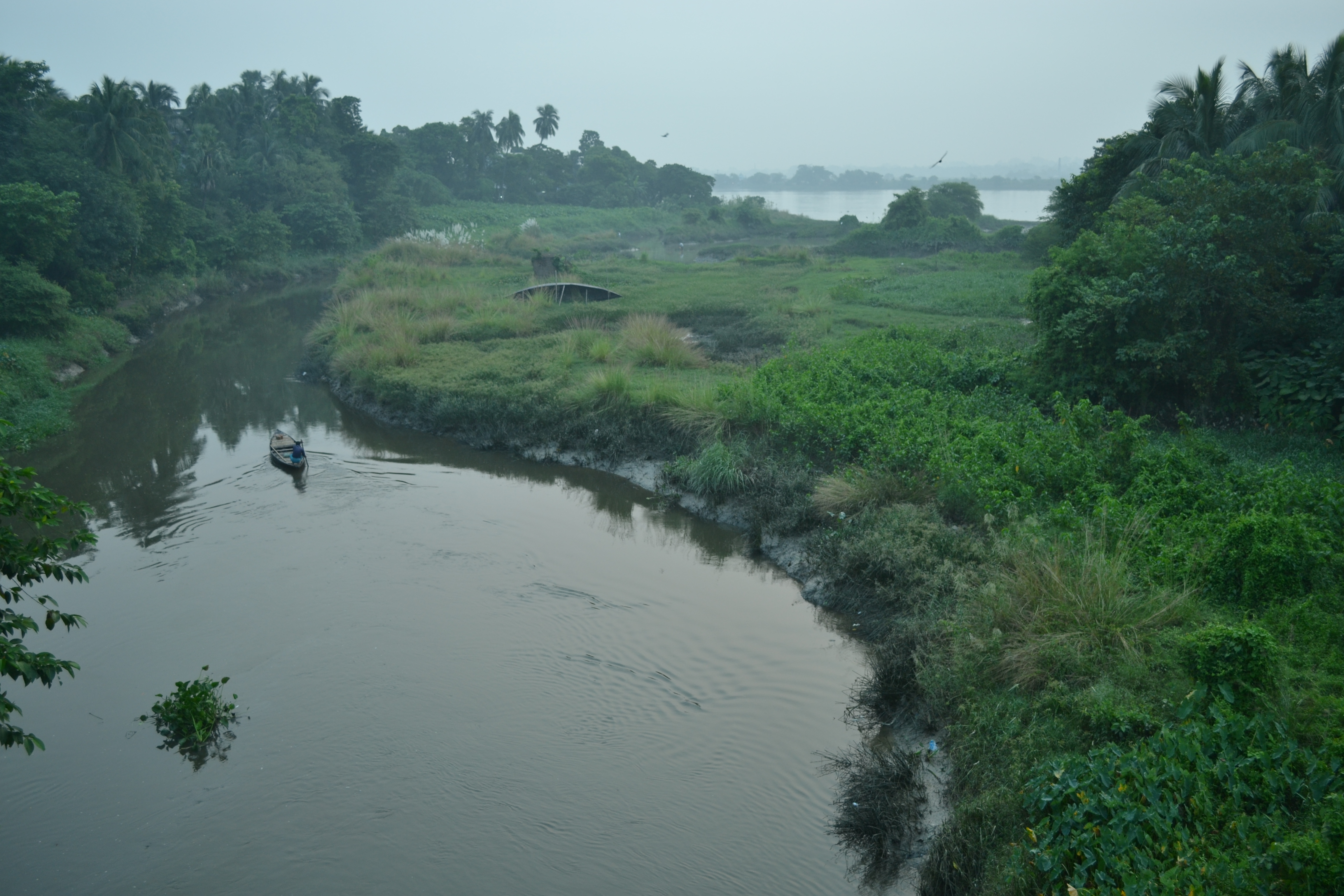 The meeting of Saraswati and Bhagirathi rivers as viewed from top of a bridge on Saraswati. The man is rowing on the Saraswati river towards Bhaghirathi commonly known as Ganges seen on the top one third of the picture